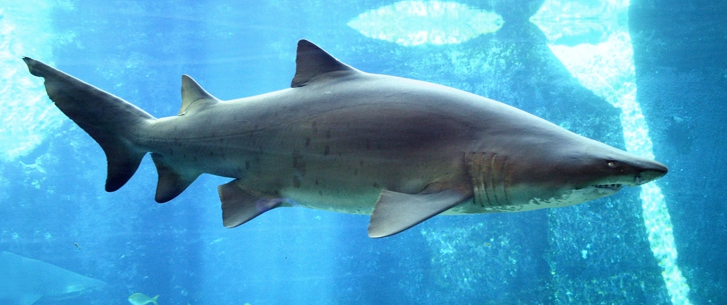 A spotted ragged-tooth shark (Carcharias taurus) in UShaka Sea World